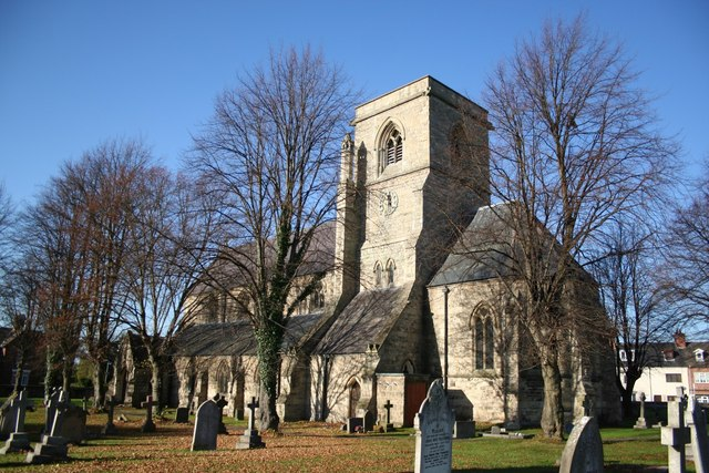 St.Luke's church By T.C.Hine in 1861-2 in the Decorated Gothic style, built at the expense of the Duke of Newcastle who opened a colliery in 1845. Its spire was removed in 1973 because of mining subsidence